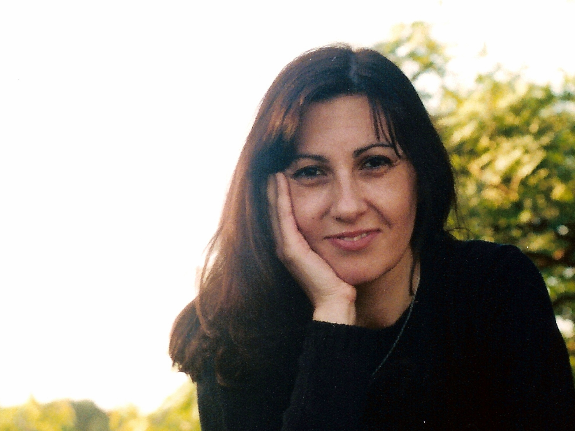 Lilián Saba en 2011.